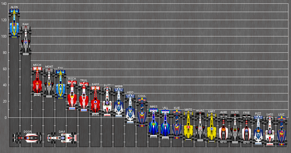 chart of final standings of 2005 Formula One season